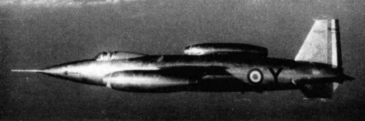 A SNCASO SO.9000 Trident in flight. The Trident was a French jet and rocket mixed-power fighter aircraft which first flew on 2 March 1953. Capable of supersonic flight the project was cancelled in July 1957 after only 12 examples had been built.